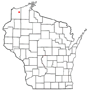 map showing location of Lake Nebagamon, Wisconsin